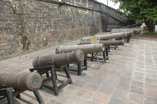 thancothuongphao